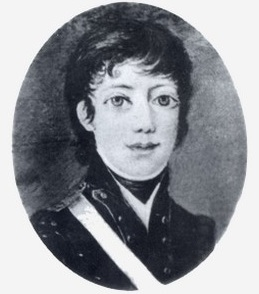 Colonel and county governor Michael Silvius von Hohenhausen.